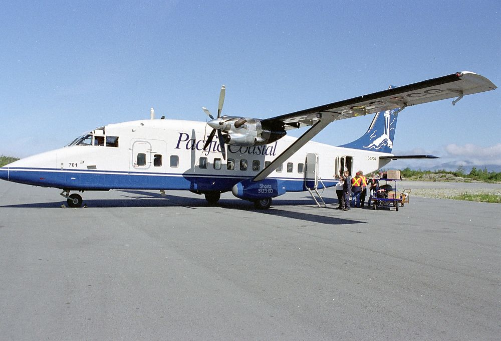 A Pacific Coastal Airlines Shorts 360 on the ground at Bella Bella, British Columbia. See [1]